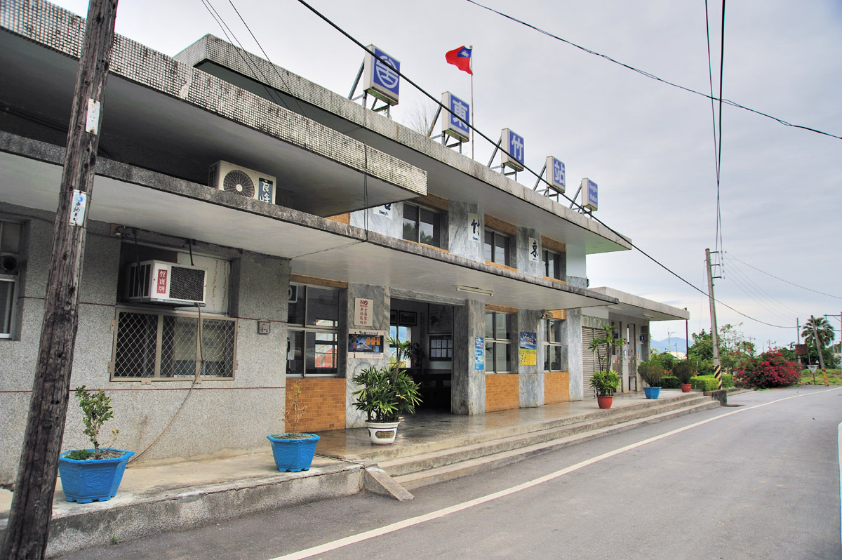 Taiwan Railway Administration DongJhu Station